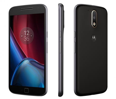 MotoG4Plus